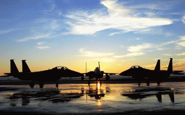 F-15 Eagles at Mountain Home AFB, Idaho in silhouette.